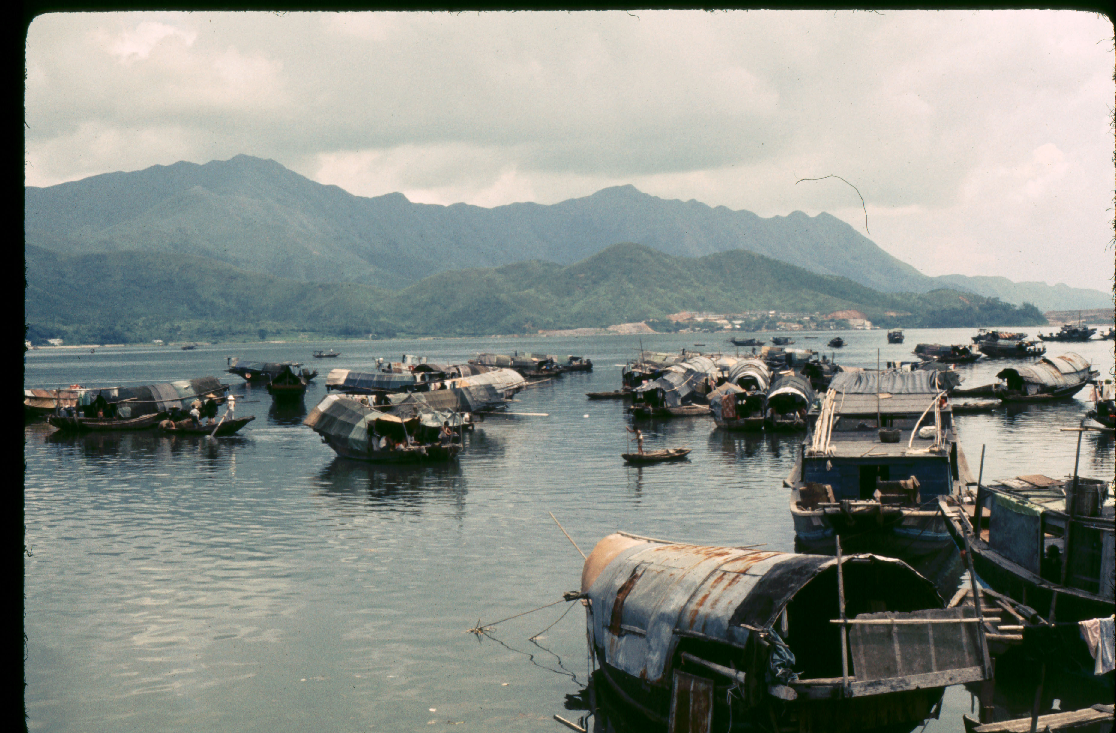 Boats belonging to Taipo fishing village; New Territories, Hong Kong.